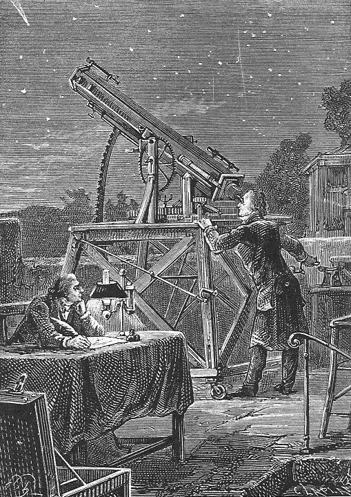 An illustration from Jules Verne's novel "Off on a Comet" (French: "Hector Servadac", 1877) drawn by Paul Dominique Philippoteaux. John Herschel observe comet Halley in the year 1835 from her observatories in Cape Town.